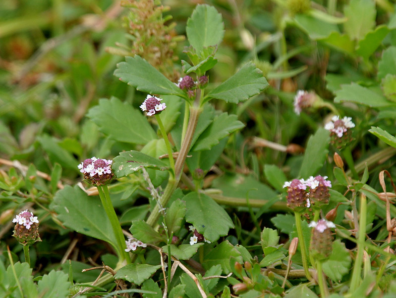 Phyla nodiflora (syn. Lippia canescens, Lippia incasiomalo, Lippia lickiflora) - Frog Fruit, Turkey tangle, Creeping Lip Plant, Lippia • Hindi: जल बूटी Jal buti, Jalpapli • Manipuri: Chinglengbi • Marathi: Jalapimpali • Tamil: Podutalei • Malayalam: Nirtippali • Telugu: Bokkena • Kannada: Nelahippali • Konkani: Adali- at Pocharam lake, Andhra Pradesh, India.